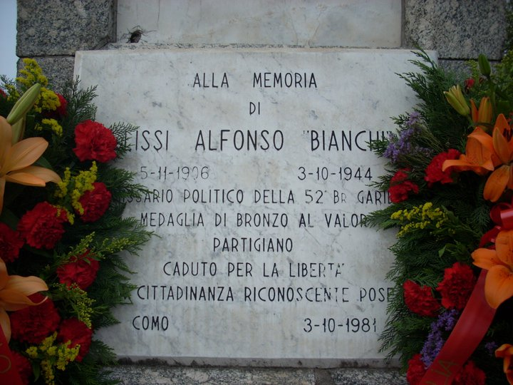 Headstone dedicated to Alfonso Lissi in Rebbio cemetery, Como.